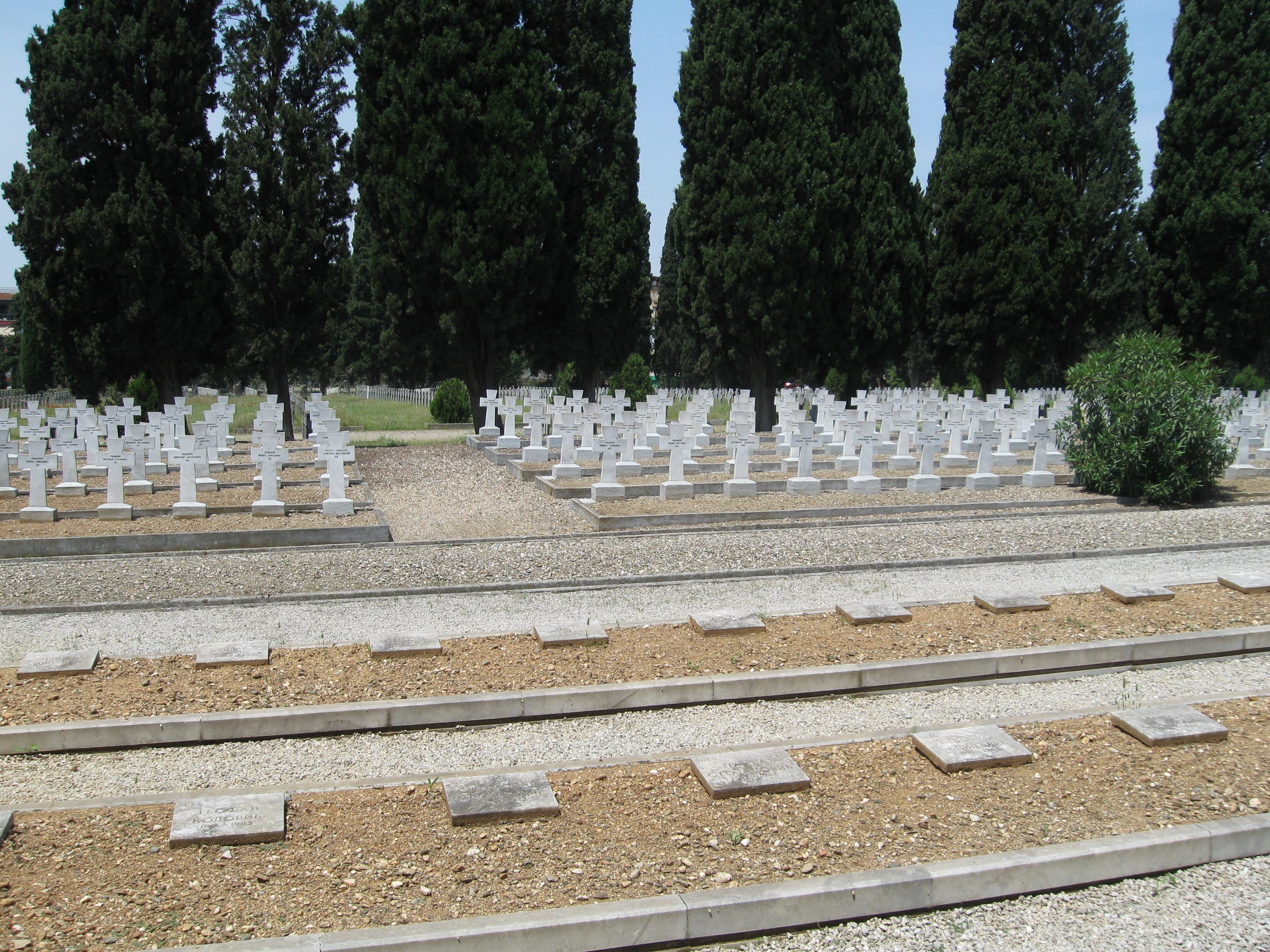 Zejtinlik Cemetery, Thessaloniki, Greece